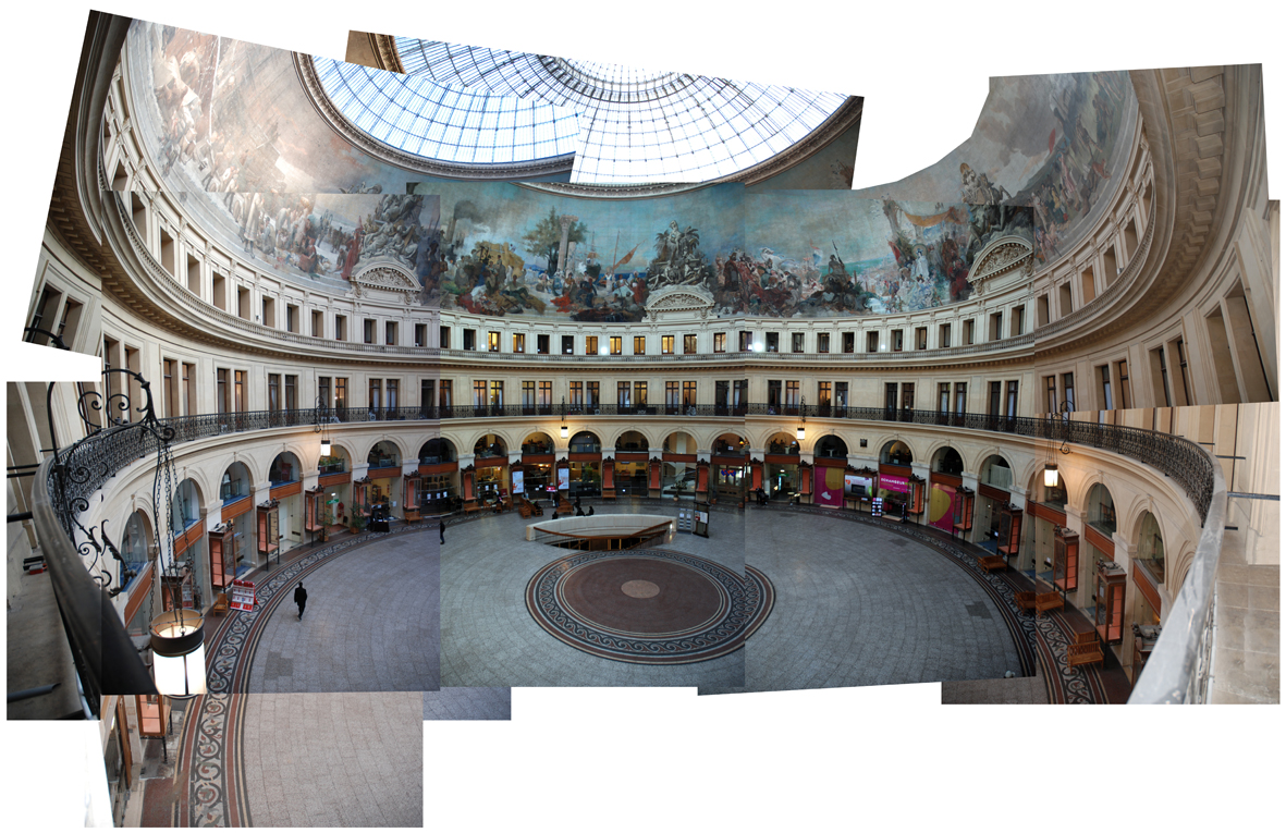 cutlog contemporary art fair paris bourse du commerce october 22-25, 2009